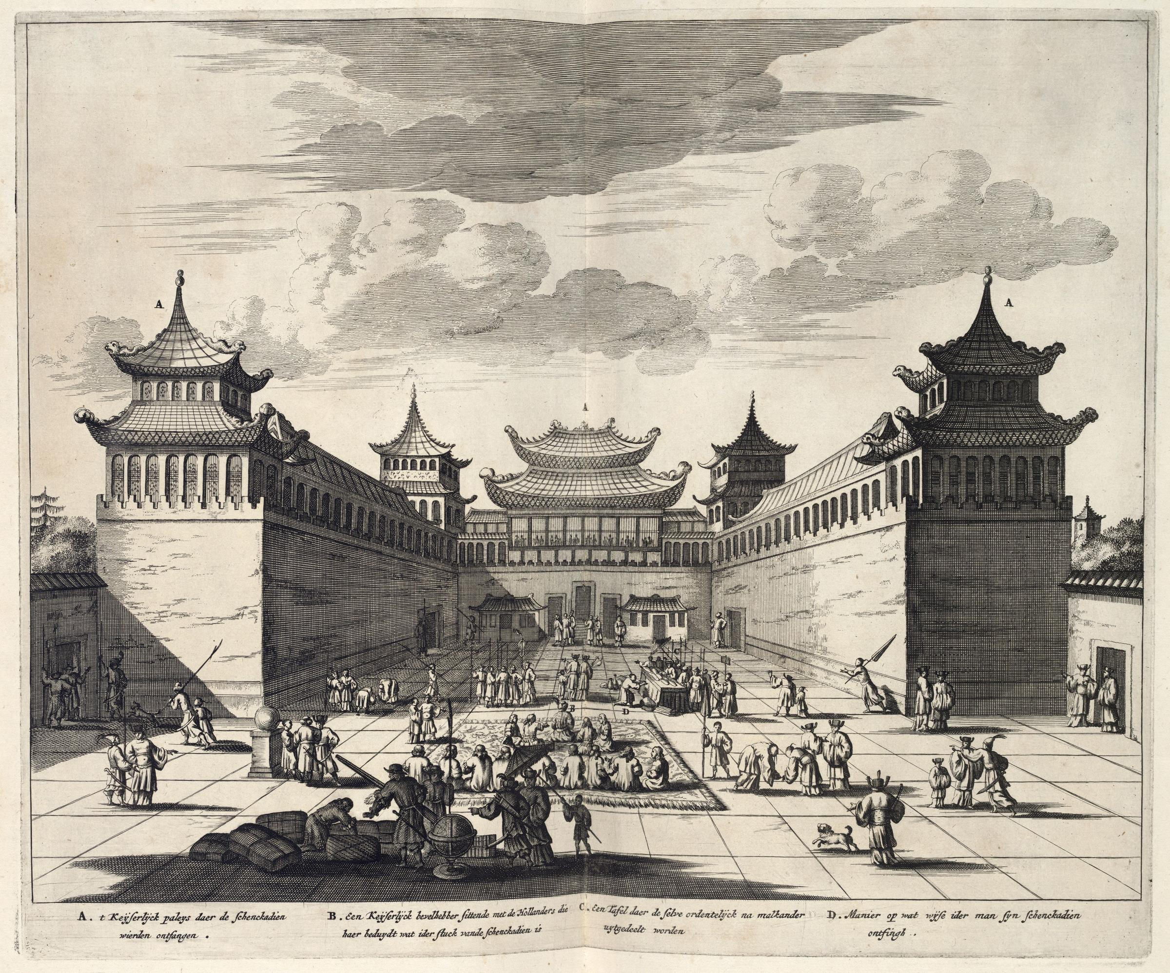 The Dutch delegation presents gifts at the Imperial palace.-Key: A. t Keijserlijck paleys daer de schenckadien wierden ontfangen. / B. Een keijserlijck bevelhebber sittende met de Hollanders die haer beduydt wat ider stuck vande schenckadien is. / C. Een Tafel daer de selve ordentelijck na malkander uytgedeelt worden / D. Manier op wat wijse ider man syn schenckadien ontfingh. Pieter van Hoorn undertook his voyage to the Imperial Court of China in 1662-1663.-Dr Olfert Dapper (1636-1689) published a large number of books after 1663. He wrote a history of the city of Amsterdam and furnished the first Dutch translation of Herodotus. But he is known particularly for his many descriptions of foreign lands which he compiled from various sources, without ever seeing the countries he wrote about for himself. This plate is taken from a description of imperial China. The publisher of this volume, Jacob van Meurs, was also an engraver. However it is not certain whether he was the engraver of these prints.